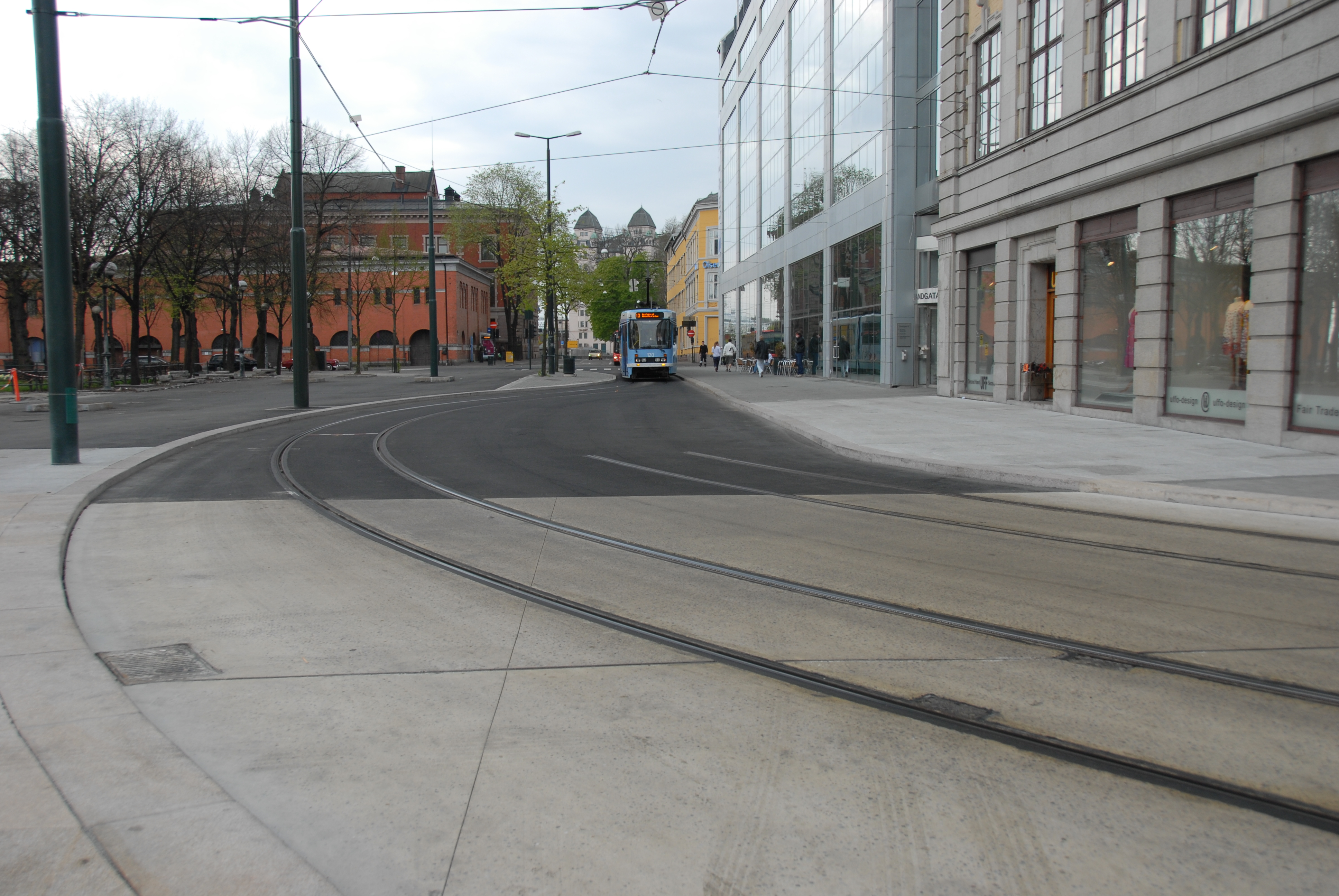 Tracks at Jernbanetorget for future connection to Fjordbane